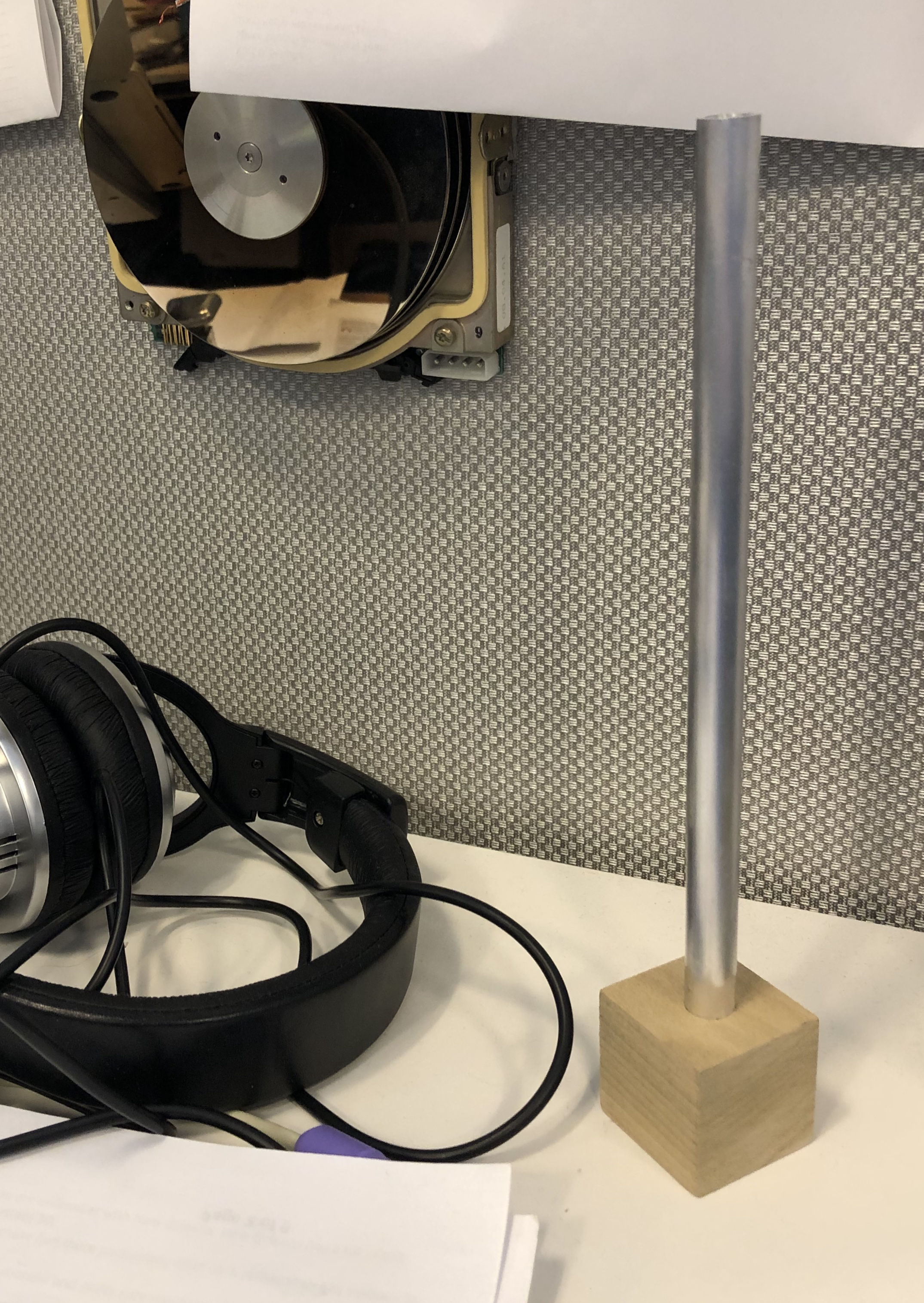 A desktop Festivus pole in a workplace.